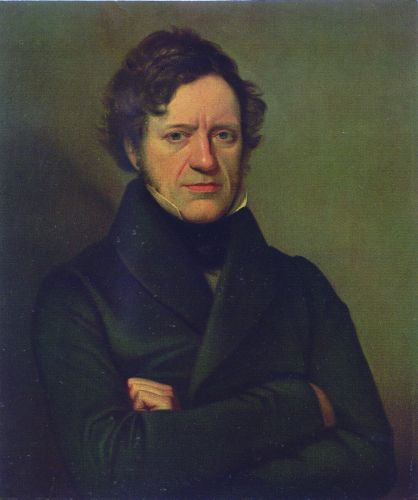 Anton Aleksander Auersperg (1806-1876), Austrian poet and politician.